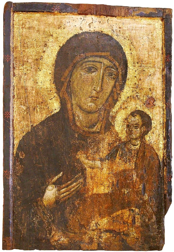 Mary Odigitria, I Half of XIII Century, Ss. Cosmas and Damian Golemi Church, Ohrid Icon Gallery